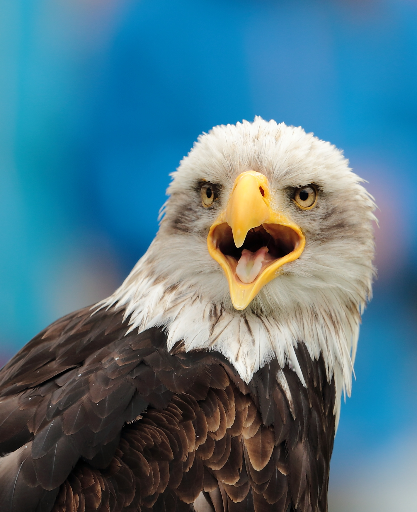 Head of Bald Eagle